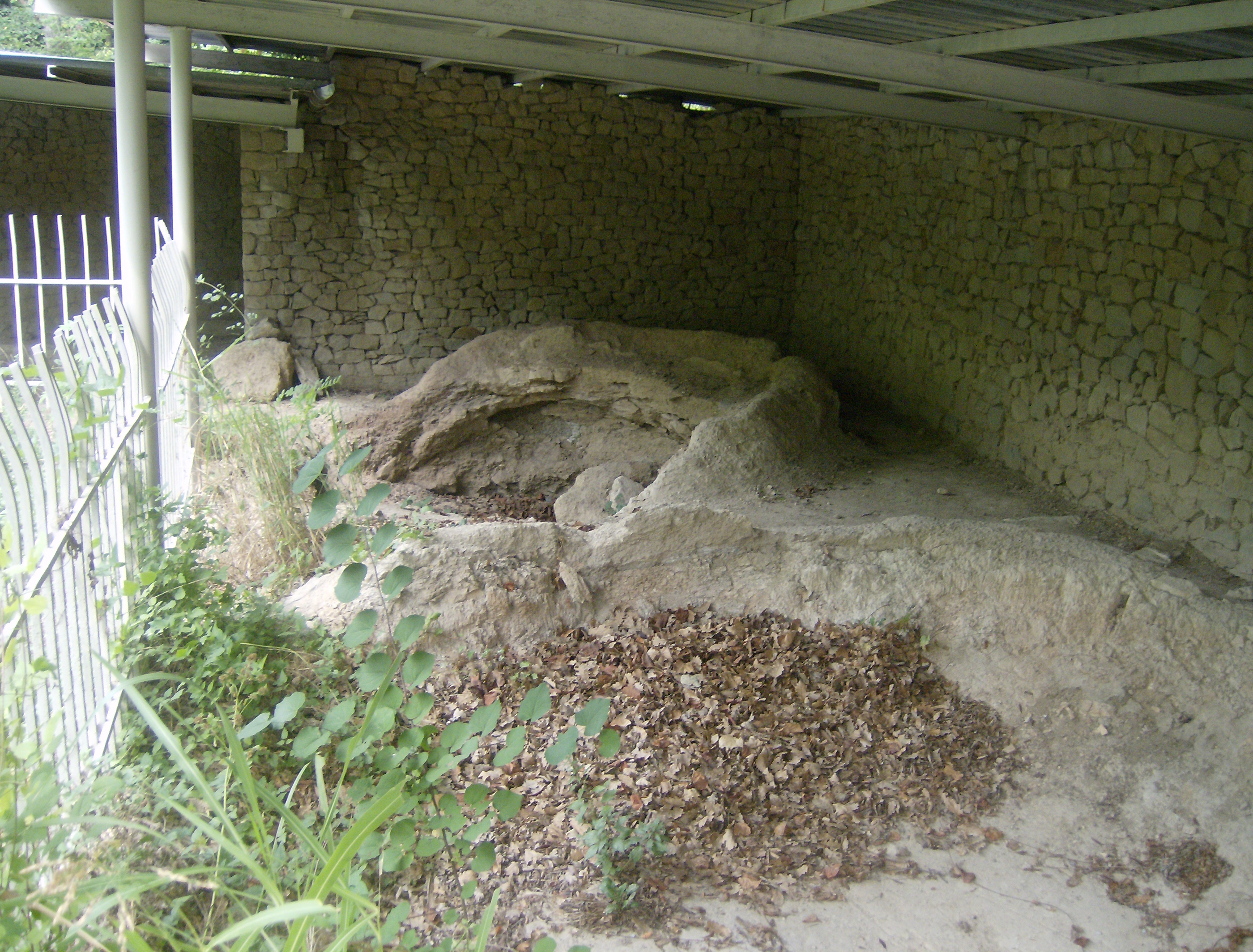 Ceramic kilns - Patleyna